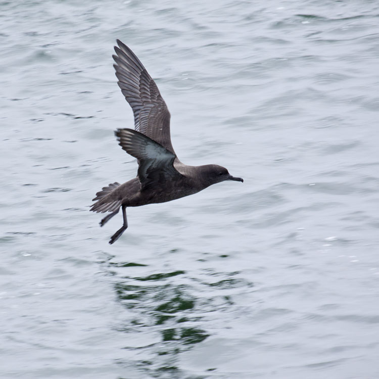 A Sooty Shearwater flying near Avila Beach, California, USA.